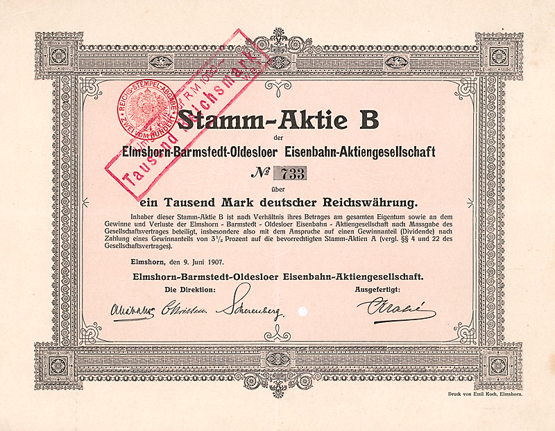 Share of the Elmshorn-Barmstedt-Oldesloer Eisenbahn-AG, issued 9. June 1907